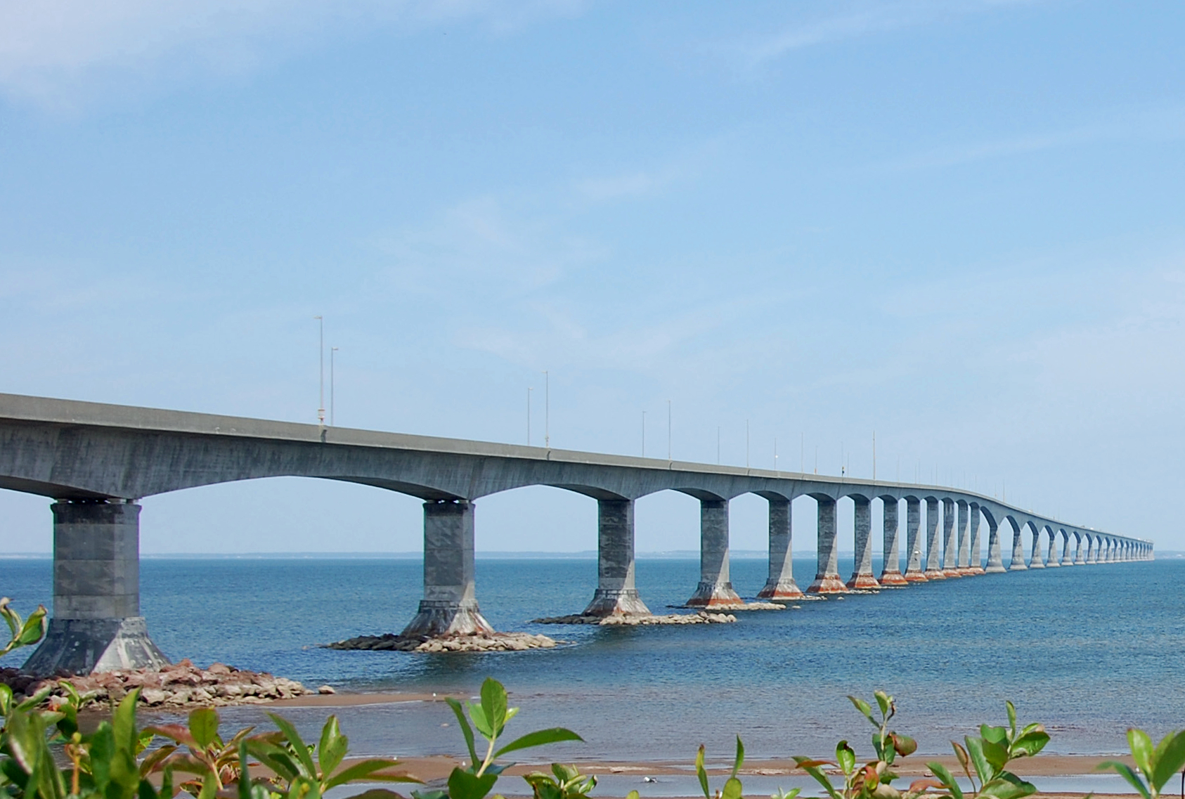 The Confederation Bridge links since 1997 Prince Edward Island with mainland New Brunswick over the Northumberland Strait at the east side of Canada